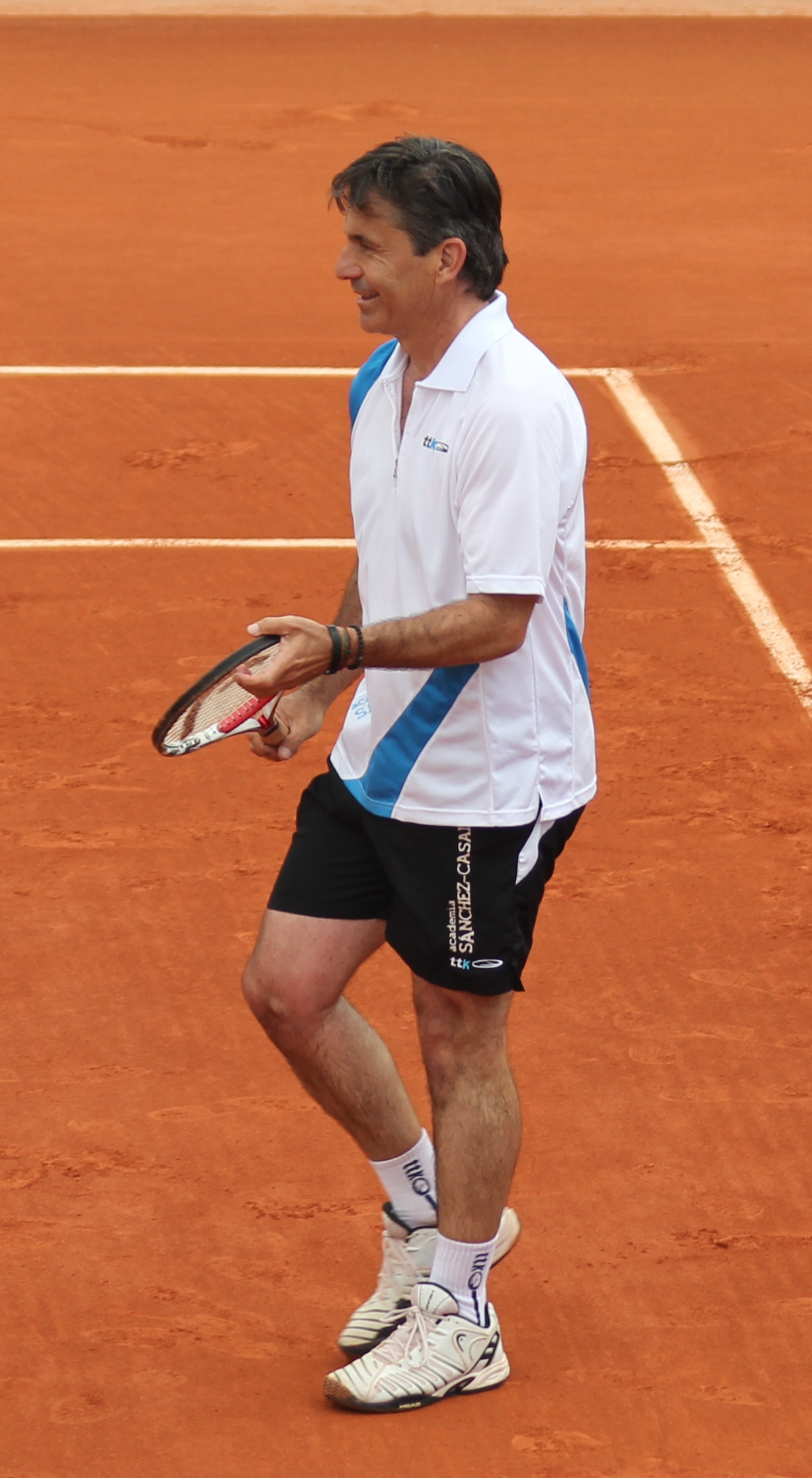 Emilio Sánchez at 2012 French Open – Legends Under 45 Doubles